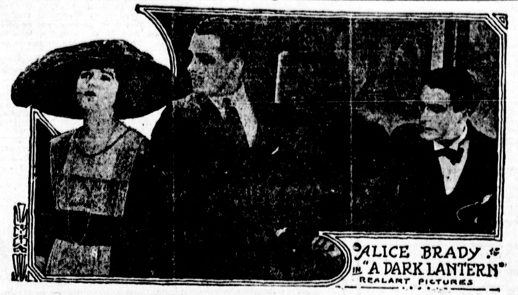 A Dark Lantern is a lost 1920 silent drama film produced and released by Realart Pictures. This is a publicity image from a newspaper.